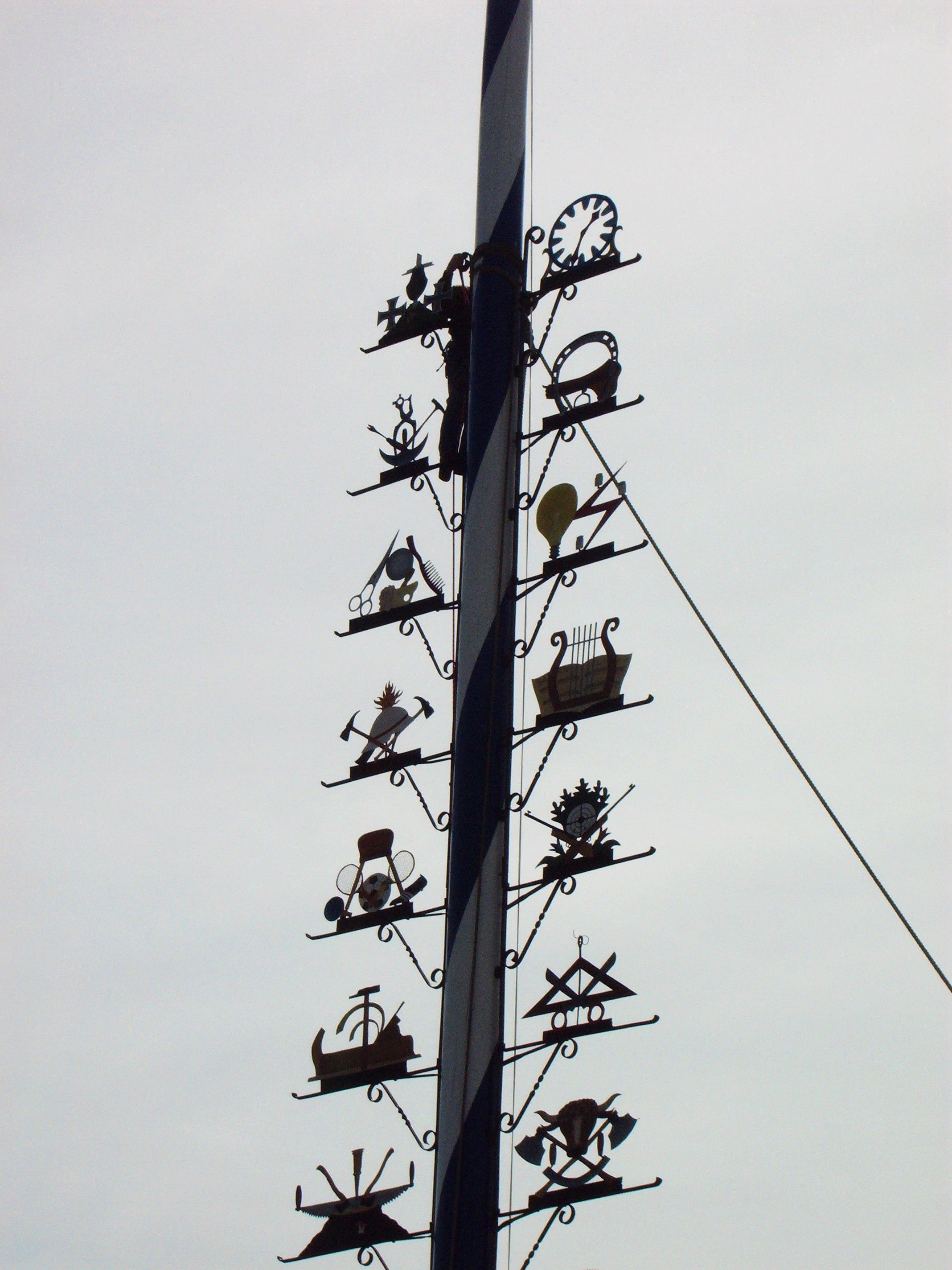 Maypole-Signs on the maypole in Fuchstal, Bavaria, Germany